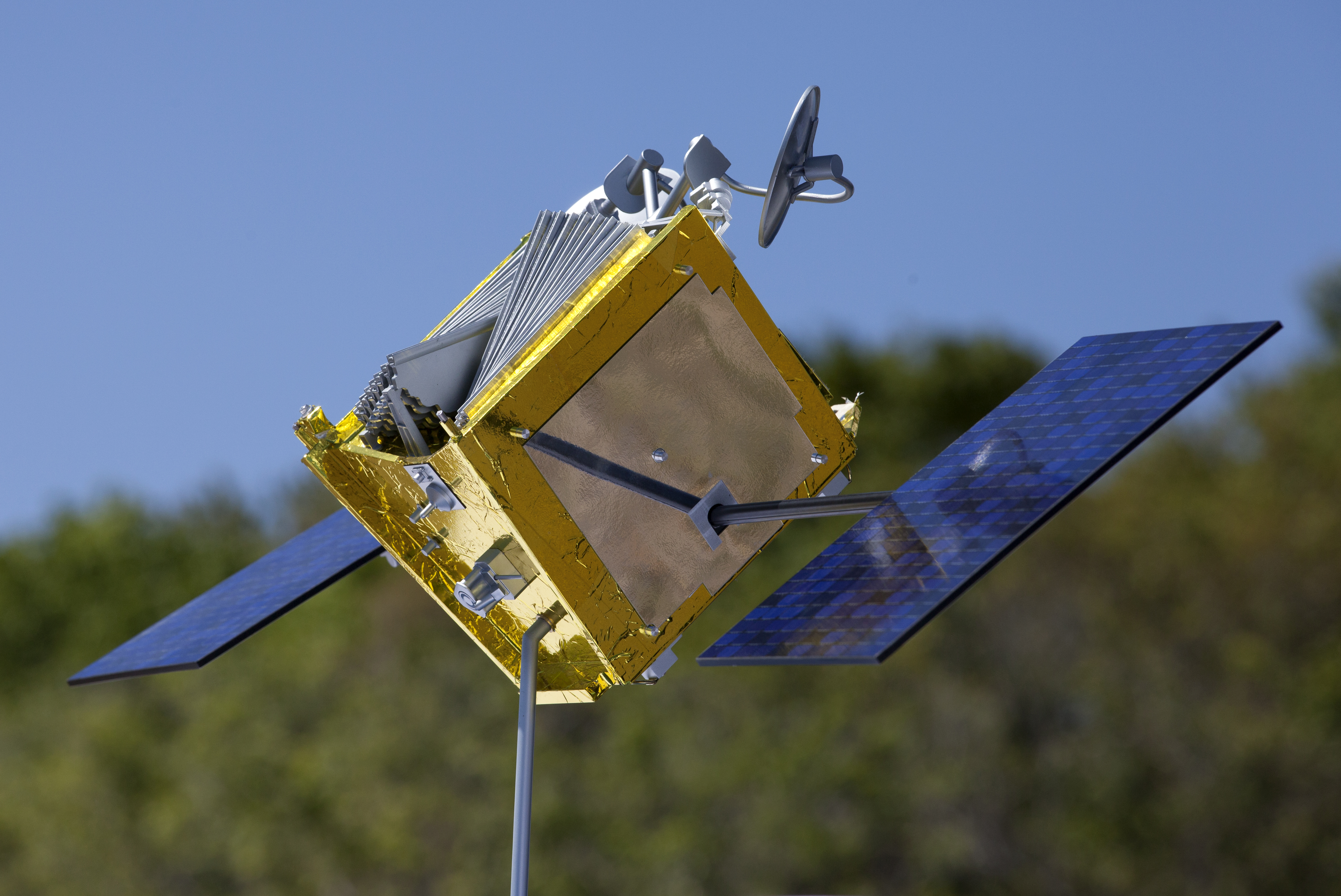 A model of a OneWeb satellite like those the company will build to will connect all areas of the world to the Internet wirelessly. The company plans to launch 2,000 of the satellites as part of its constellation. The satellites will be built at a new factory at Exploration Park at NASA's Kennedy Space Center. The company held a groundbreaking ceremony for the factory. Photo credit: NASA/Kim Shiflett